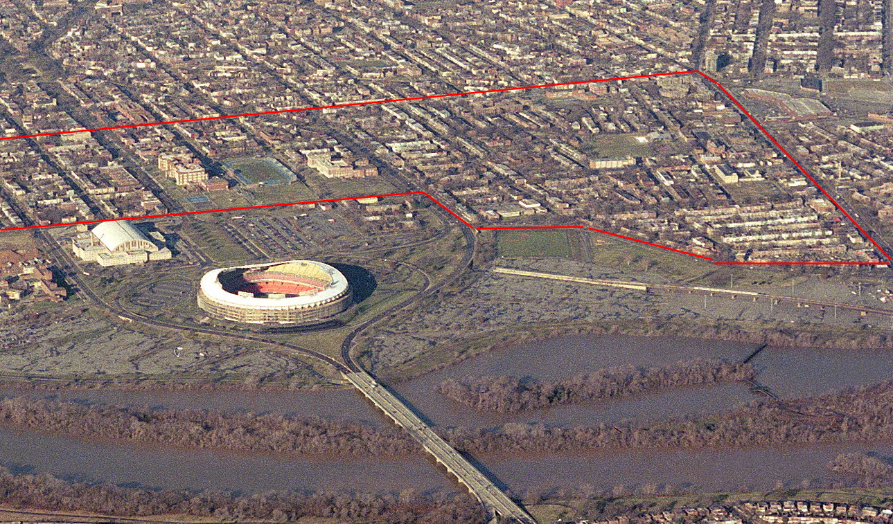 Aerial view of the Kingman Park neighborhood of Washington, D.C., in the United States. The neighborhood is outlined in red. The D.C. Armory and Robert F. Kennedy Stadium are center-left. The Whitney M. Young Memorial Bridge (i.e., the East Capitol Street Bridge) crosses the Anacostia River, center-bottom. Kingman Island (the long island), Heritage Island (the smaller island between Kingman Island and the far shore), and Kingman Lake (the water between Kingman Island and the far shore) can also be seen. The Eastern High School football stadium can be seen just above (to the east) of RFK Stadium.